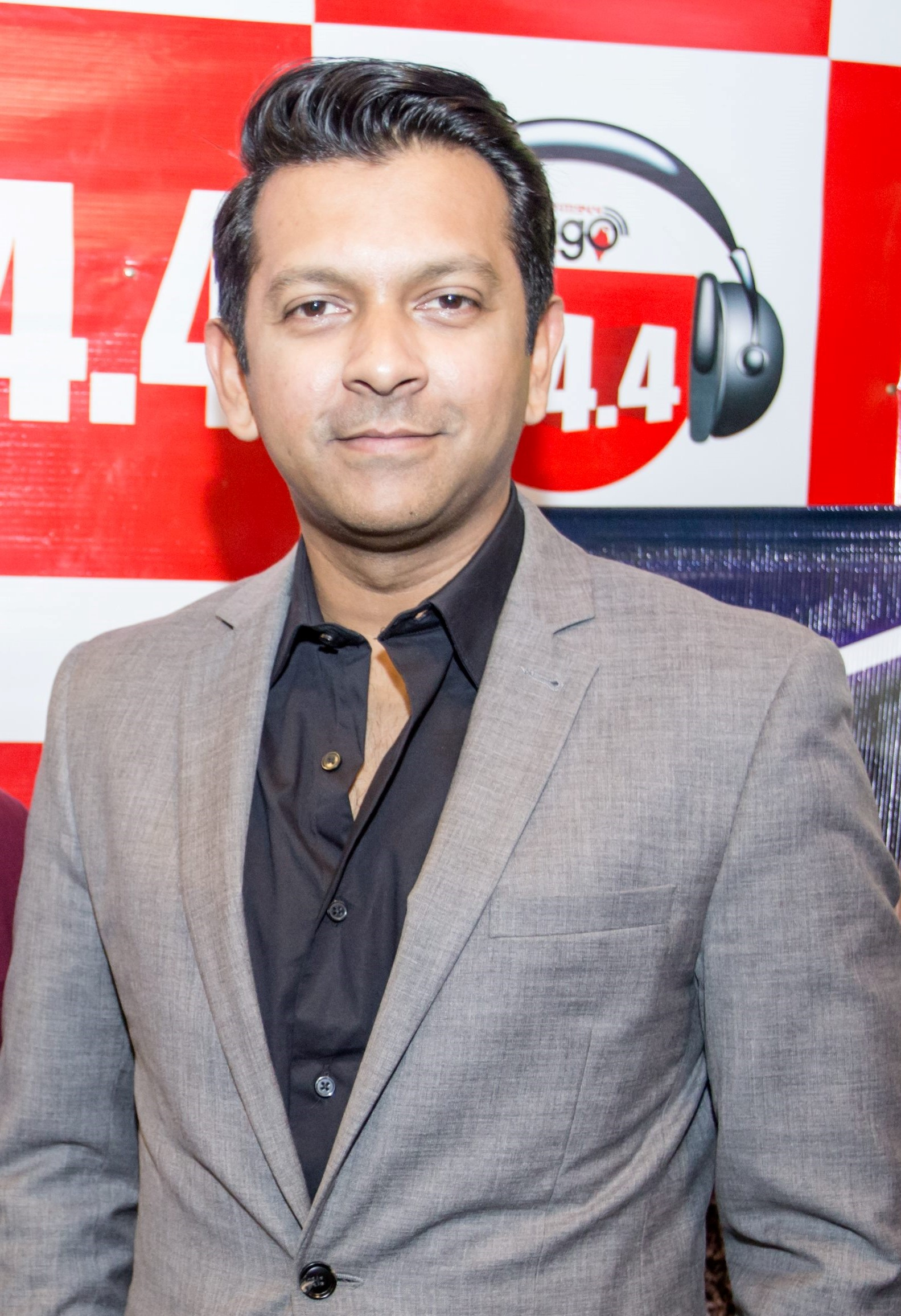 Tahsan Rahman Khan is a Bangladeshi singer-songwriter, composer, actor, teacher, and model